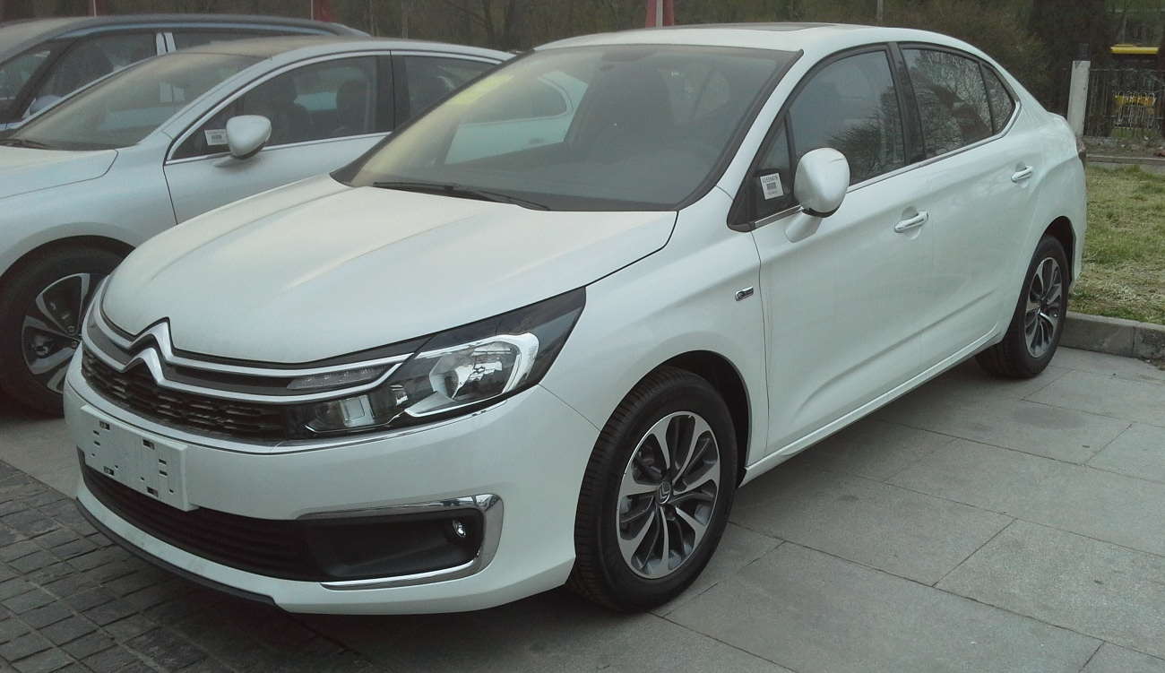 Citroën C4L facelift photographed in Beijing, China.